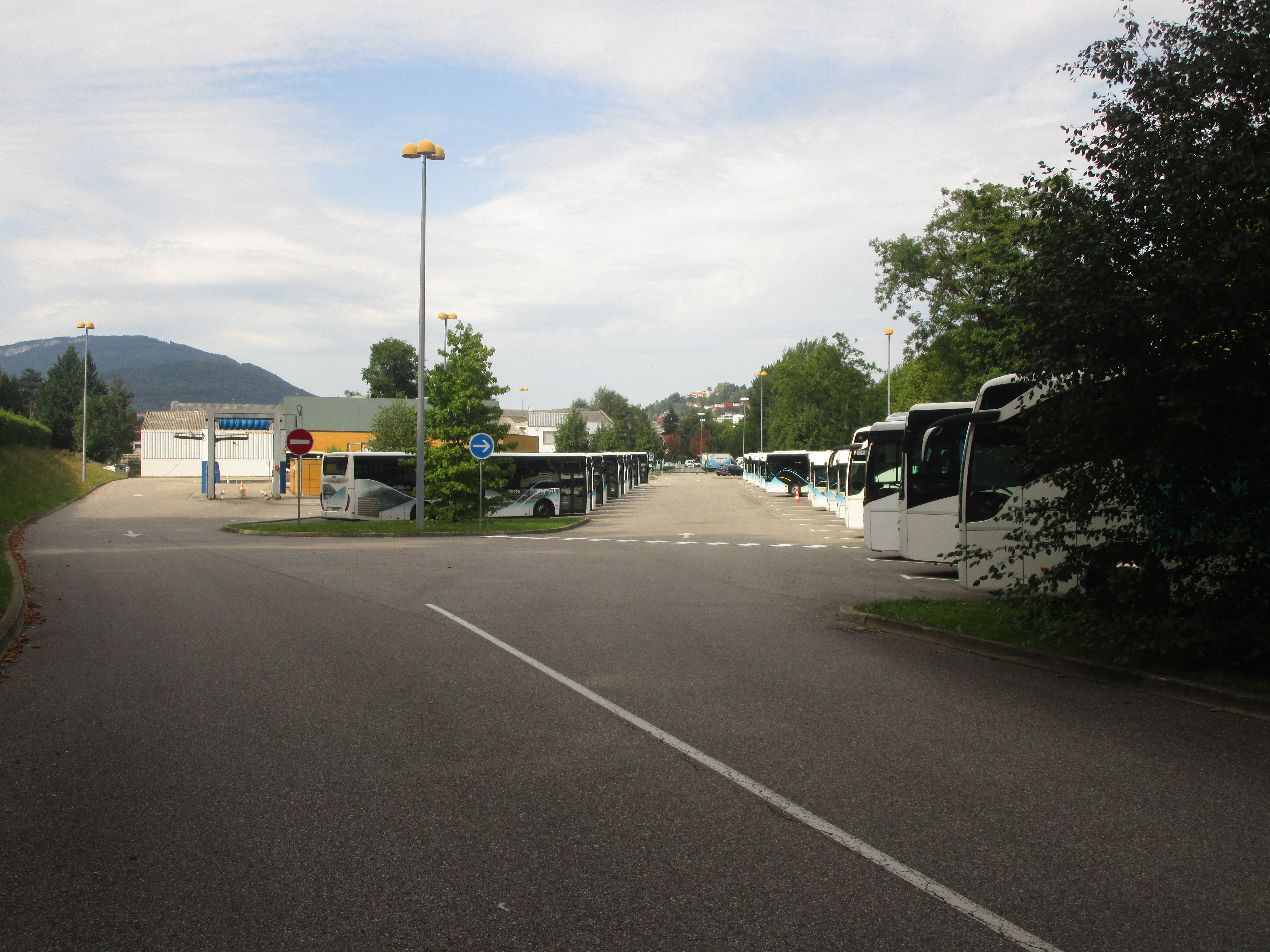 The yard of Ondéa, in Boulevard Lepic (Aix-les-Bains, France), on August 15, 2017.